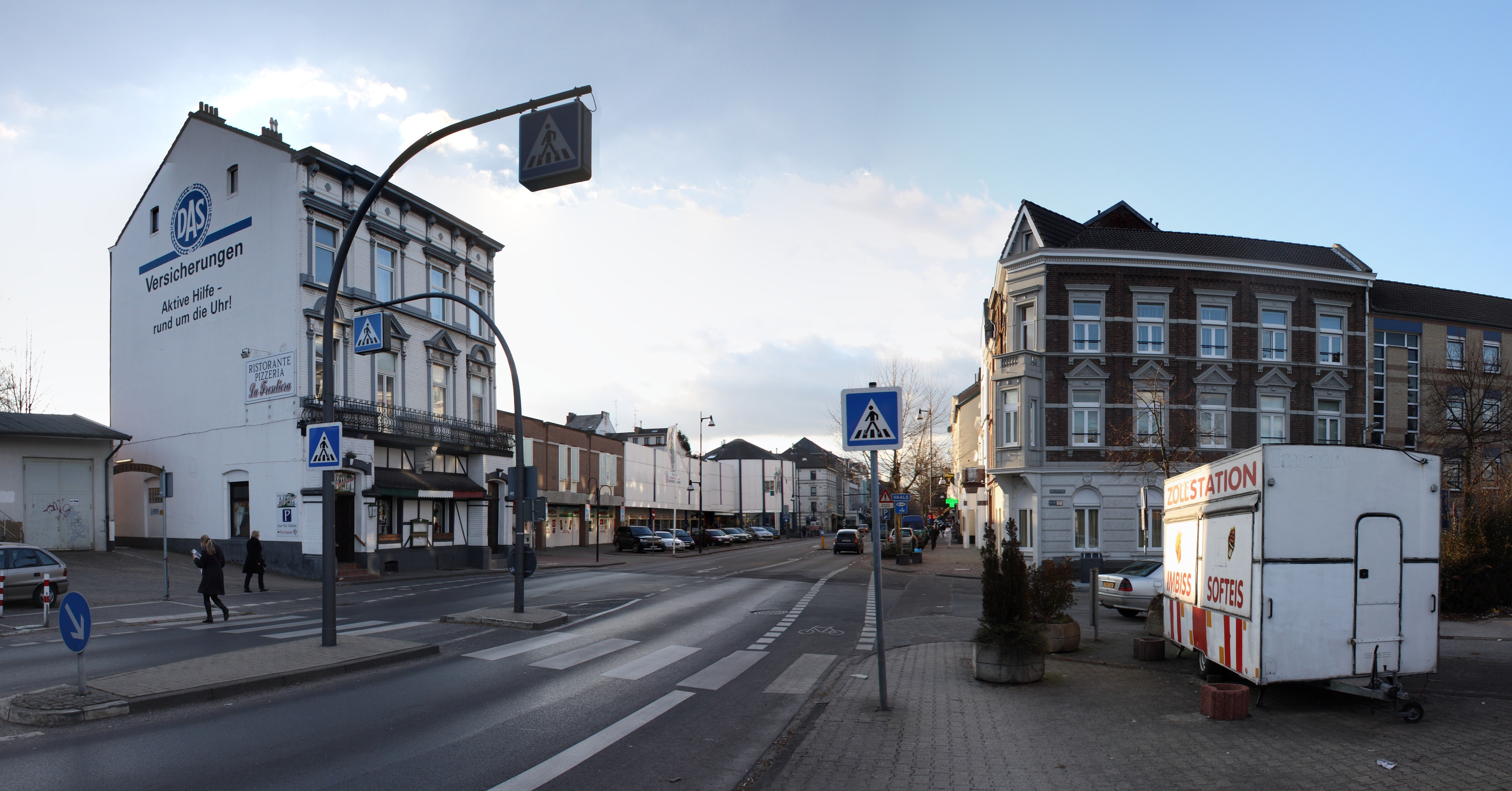 Border between Netherlands and Germany. Camera Location is in Germany, looking into the Netherlands. I am standing next to German Highway B1. Just in front of me Dutch Highway N278 begins. The only customs station (german "Zollstation") is selling french fries - however also this one did not open for several years.